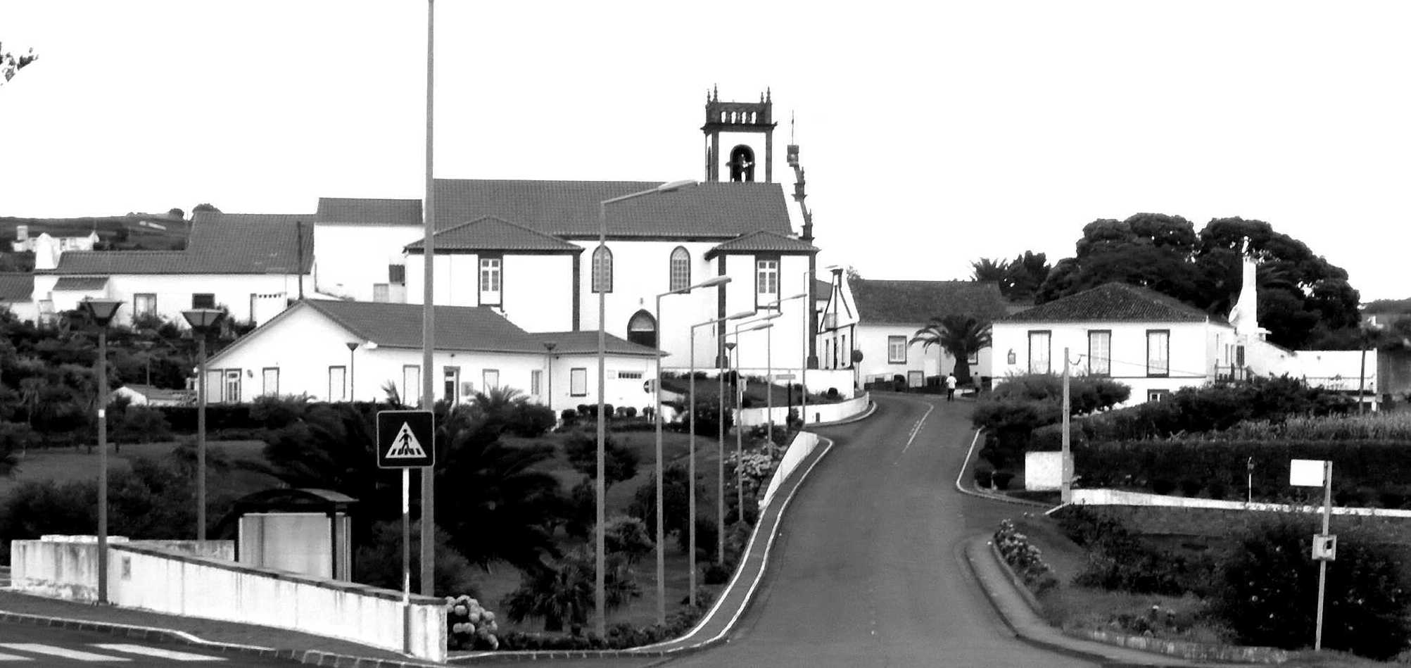 Conceição